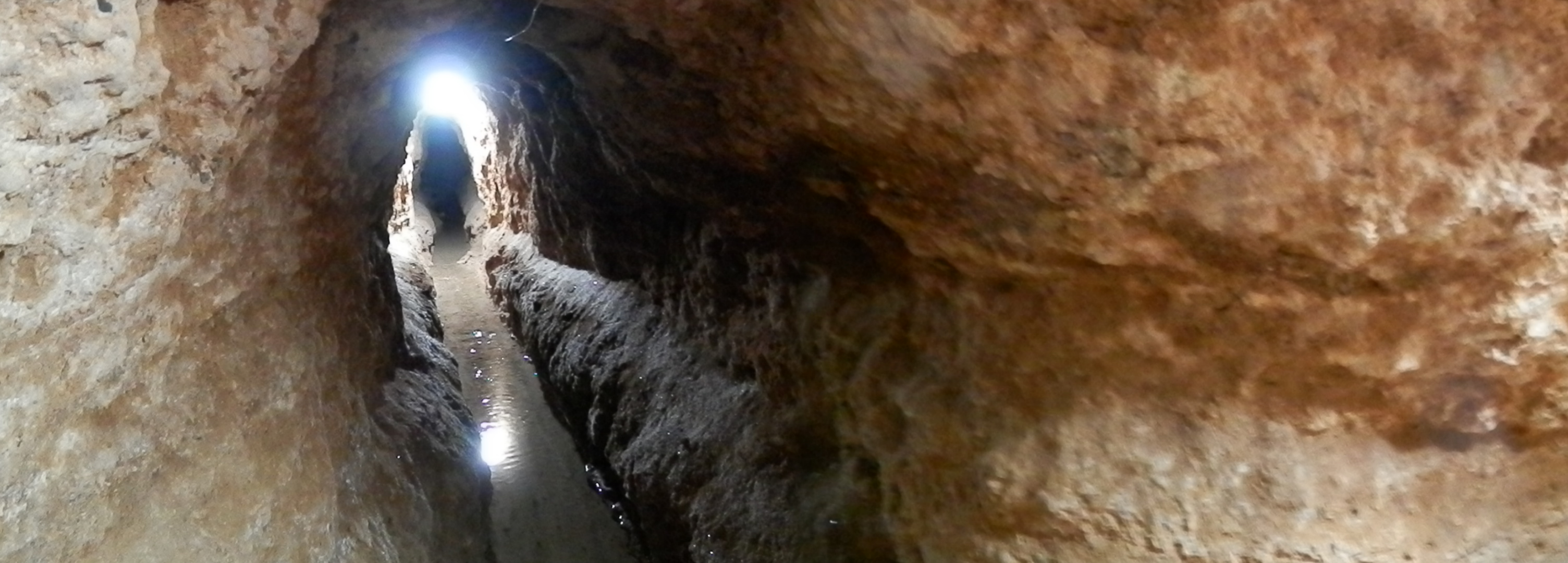 keykhsrow qanat chanel